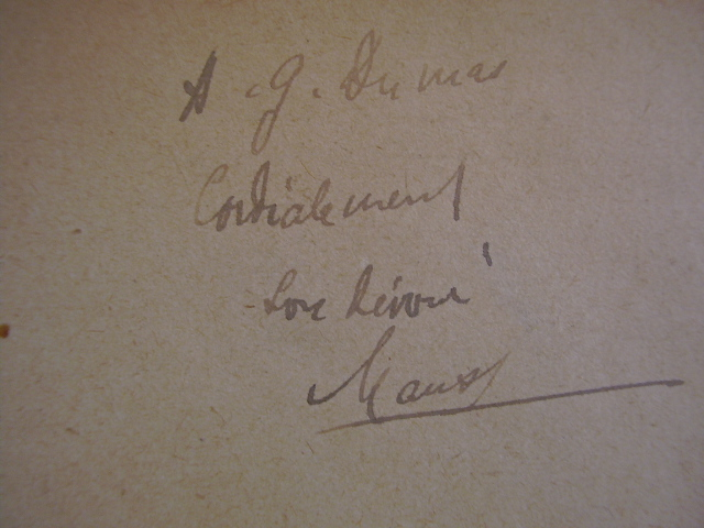 Signature of Marcel Mauss on Mélange d'histoire des religions, Paris, Alcan, 1909. This book was offered to Georges Dumas and is now held in the Human and Social Sciences Library Paris Descartes-CNRS.